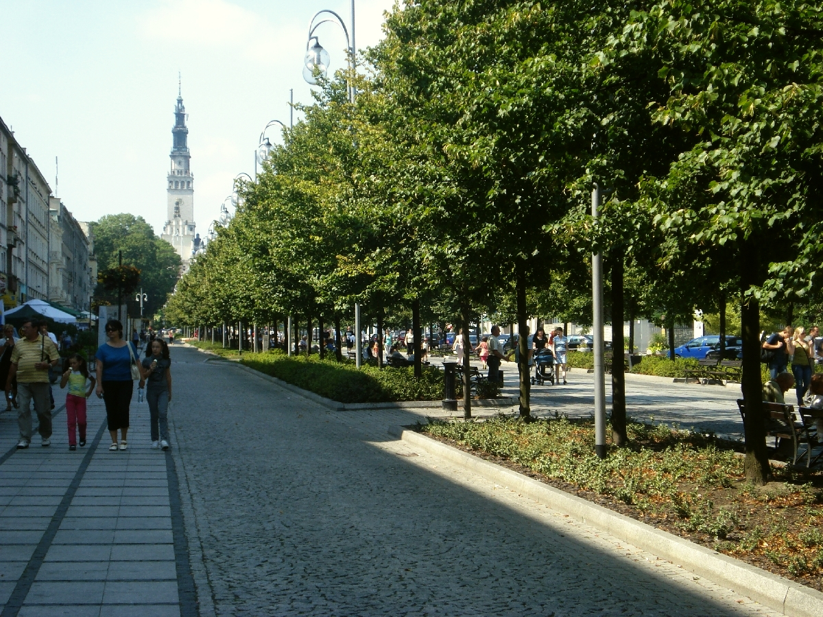 III Saint Mary's Avenue in September 2009